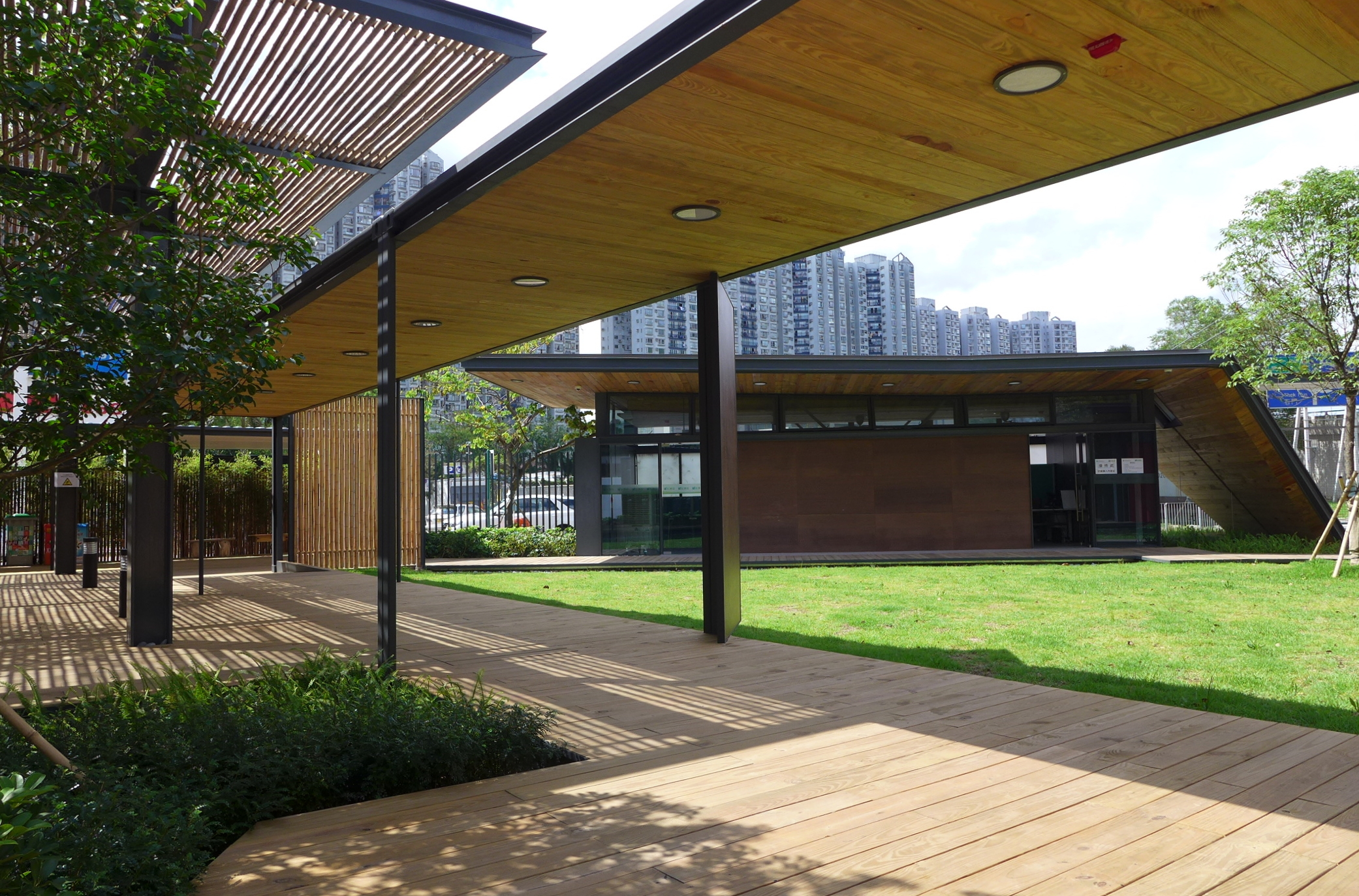 Sha Tin Community Green Station